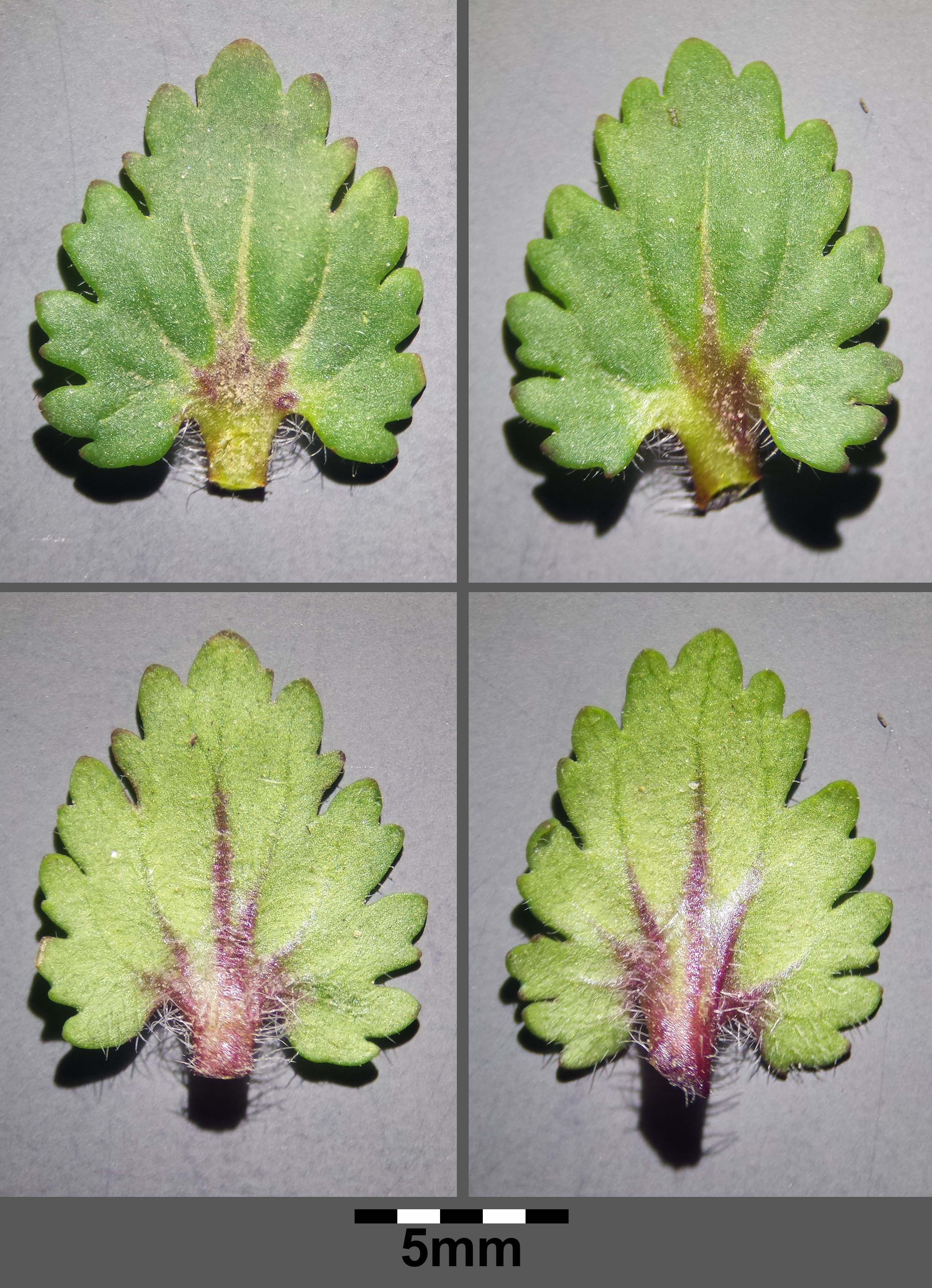 Leaves Above: top sides, below: bottom sides Taxonym: Veronica praecox ss Fischer et al. EfÖLS 2008 ISBN 978-3-85474-187-9 Location: hollow way near Großebersdorf, district Mistelbach, Lower Austria - ca. 230 m a.s.l. Habitat: upper edge of a hollow way